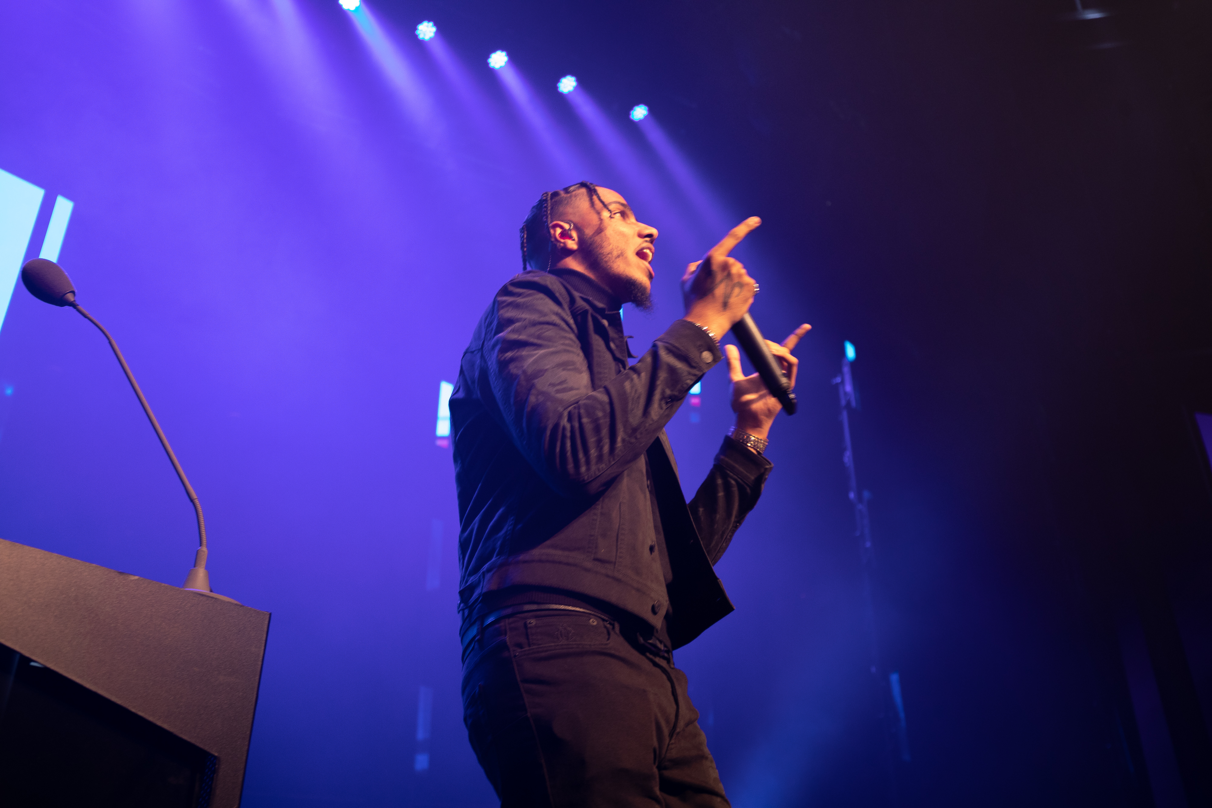 AJ Tracey performing at the AIM awards 2019